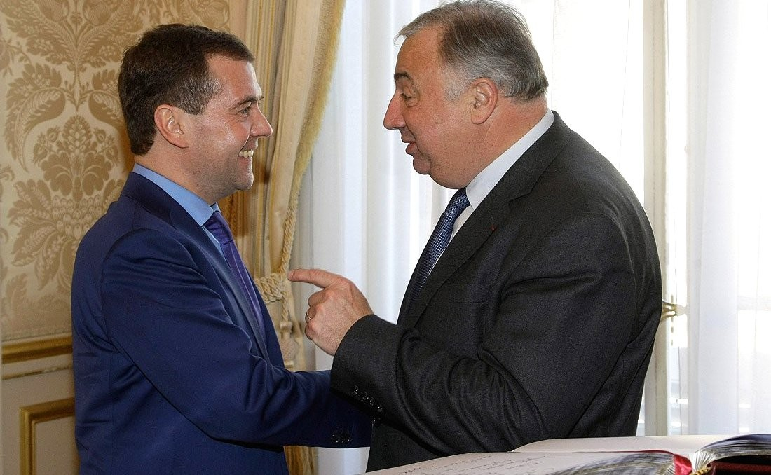 PARIS. With French Senate President Gerard Larcher.